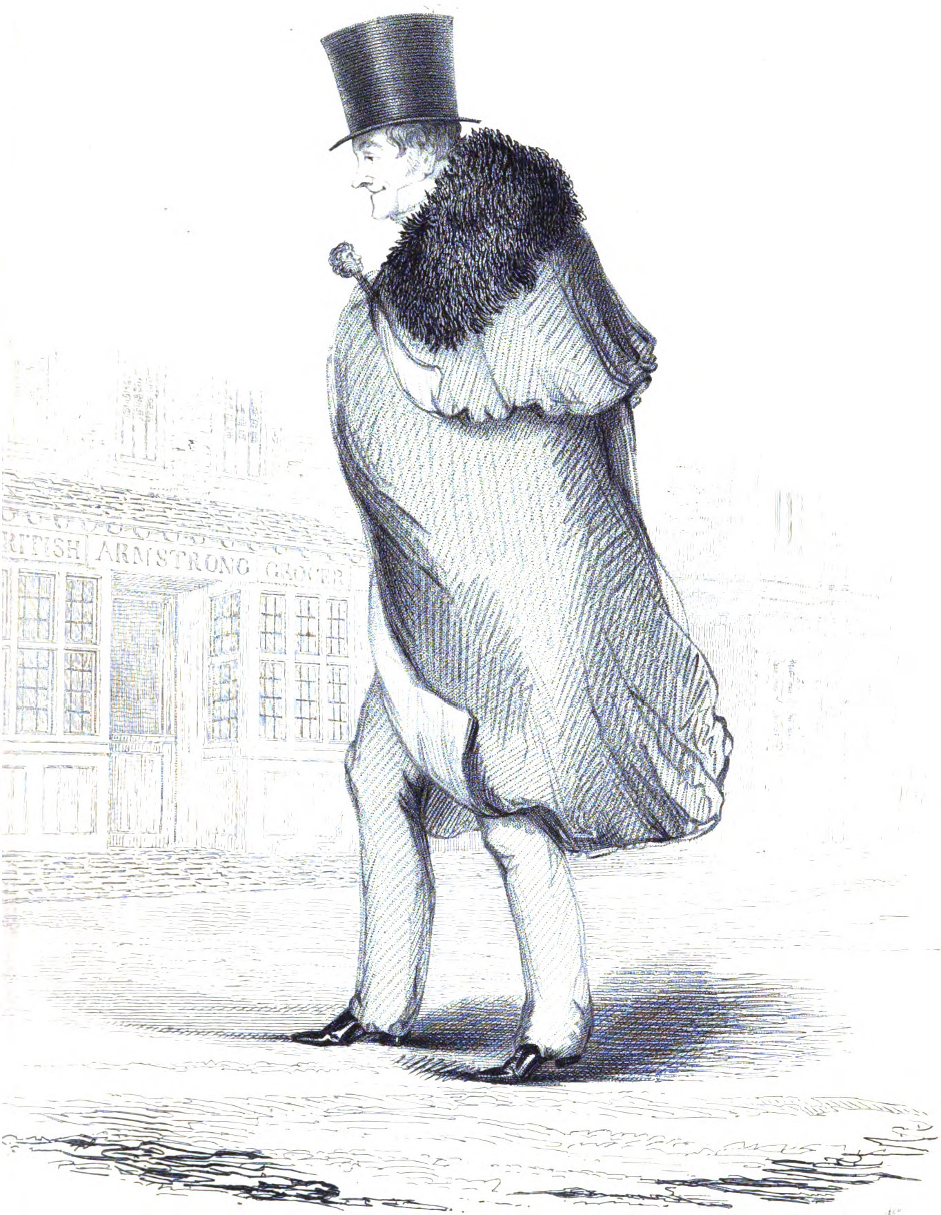 A portrait of aged George Brummell in Caen, also known as Beau Brummell, from the front of the 1844 biography by Captain William Jesse.